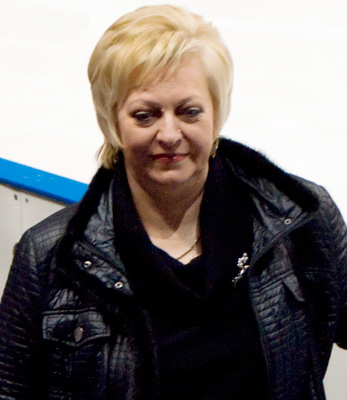 2010 Cup of Russia, free skating.